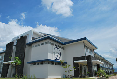 Main classroom building of Bandung Alliance International School